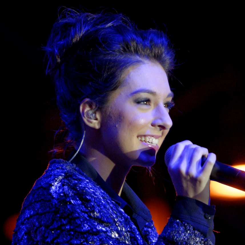 Christina Grimmie performing at the Citadel Tree Lighting in 2014